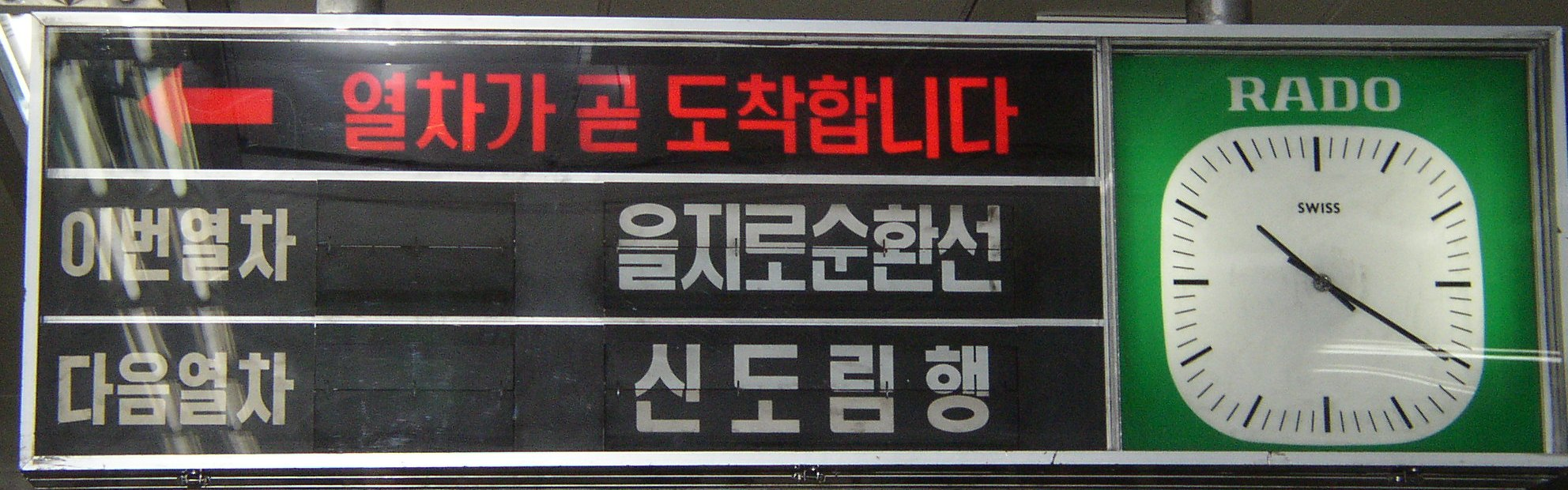 Arriving information of Seoul subway 2